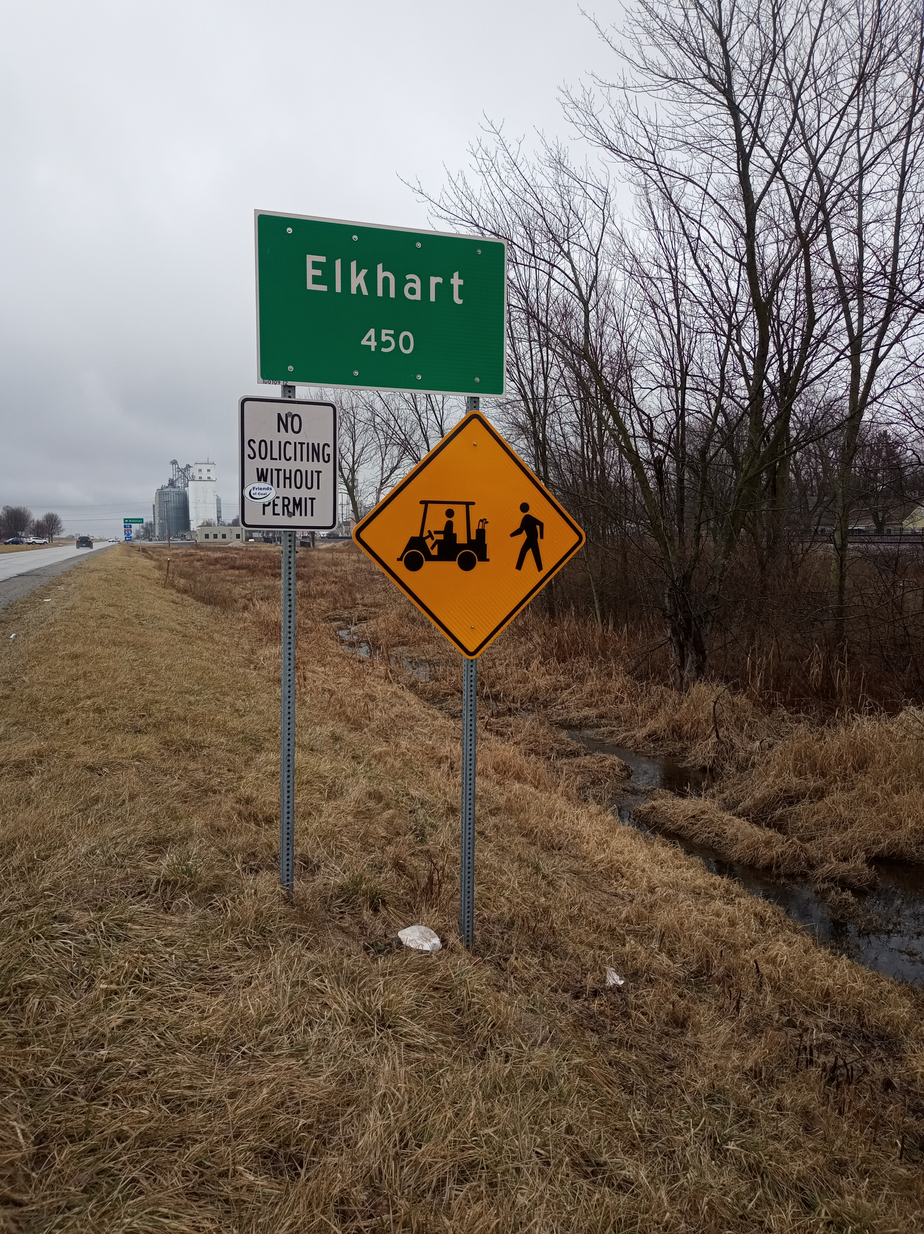 Sign at southern border of Elkhart Illinois, announcing the town population and warning of golf cart and pedestrian traffic. Also featuring a "Friends of Coal" sticker, possibly unofficial. Elkhart grain elevator visible in background.